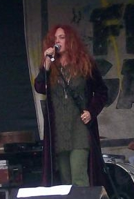 Freygang live bei einer Kundgebung für Mumia Abu-Jamal